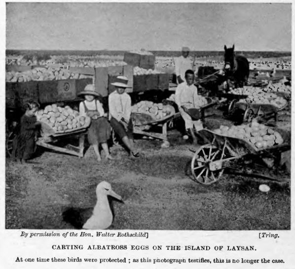 Laysan Albatross egss collected from a colony on Laysan Island